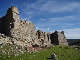 Castillo